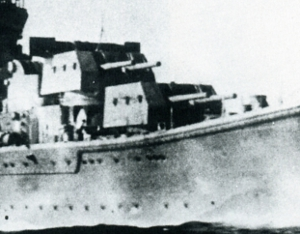 Closeup clip shwowing twin 6-inch gun turrets on Japanese light cruiser Agano. 1942, off Sasebo. Scaled to 300px for use in 6-inch gun infobox.